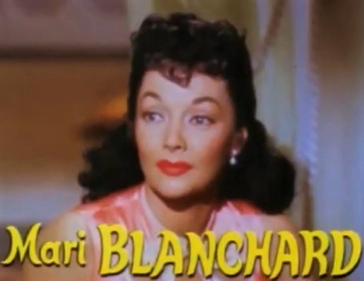 Mari Blanchard in Son of Sinbad - trailer (cropped screenshot)